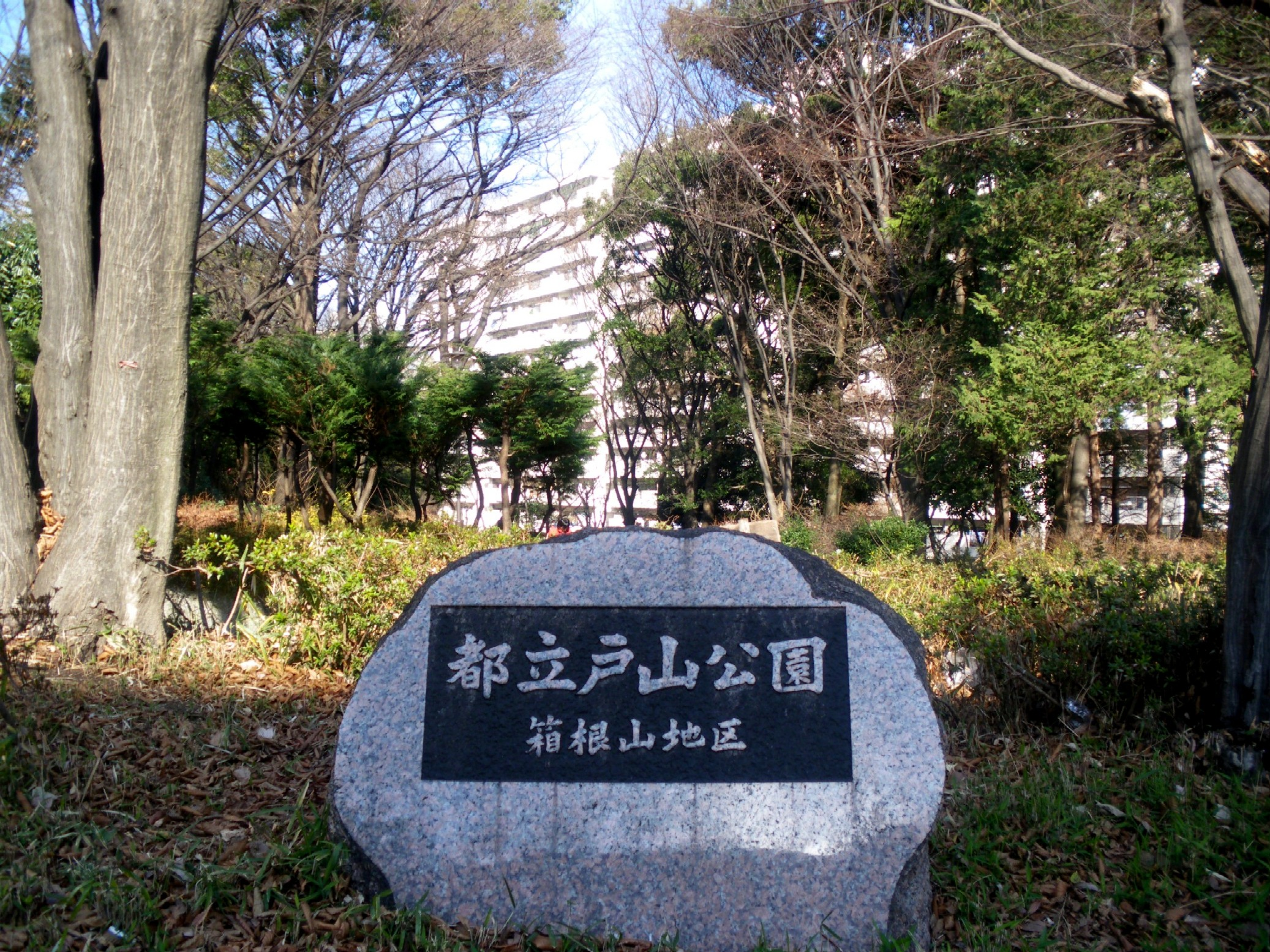 A photo of Toyama Park Hakoneyama area (the entrance of south side), Toyama, shinjuku-ku, Tokyo, Japan.